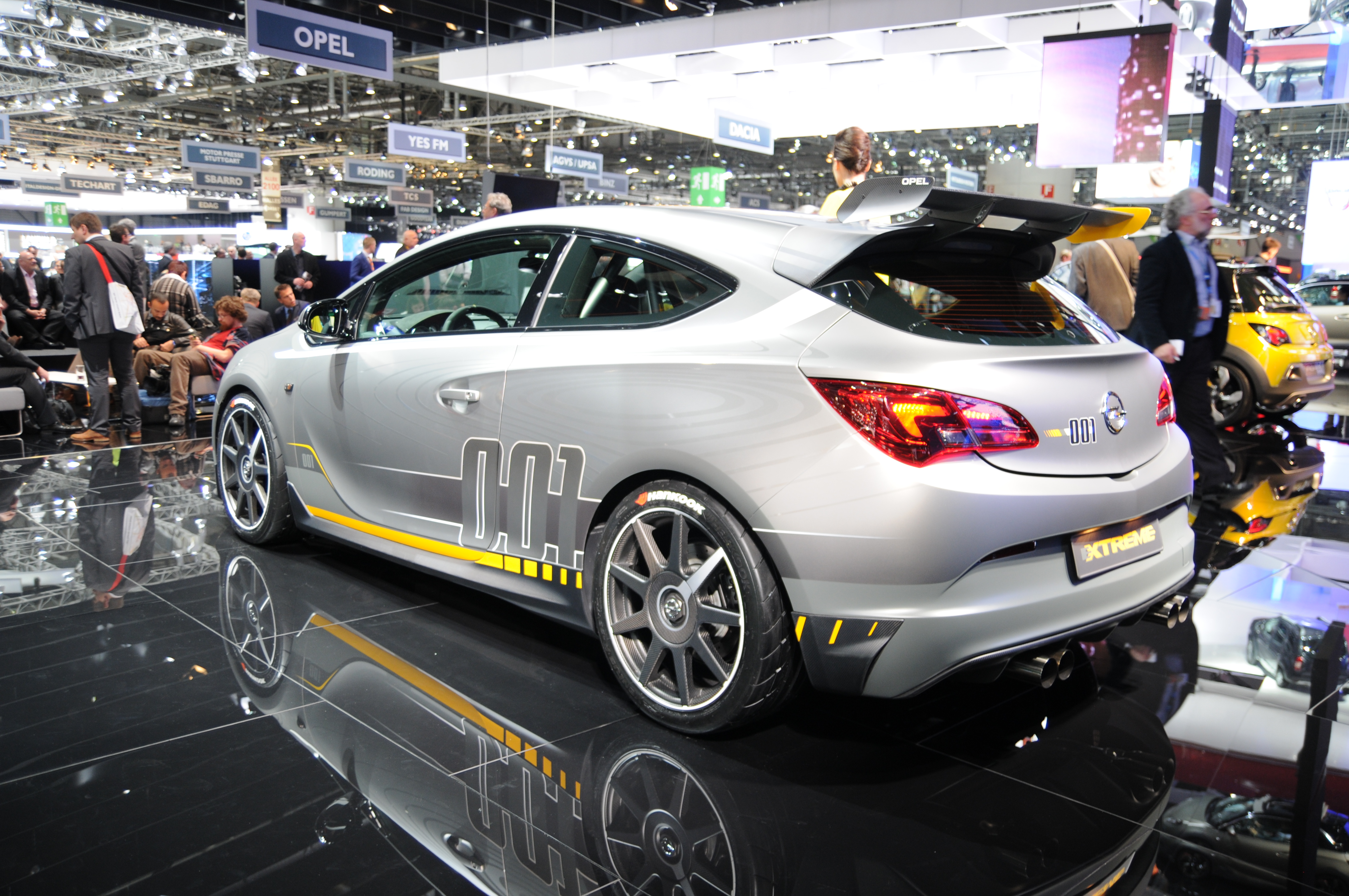 Geneva Motor Show 2014 (photo taken on the first press day)